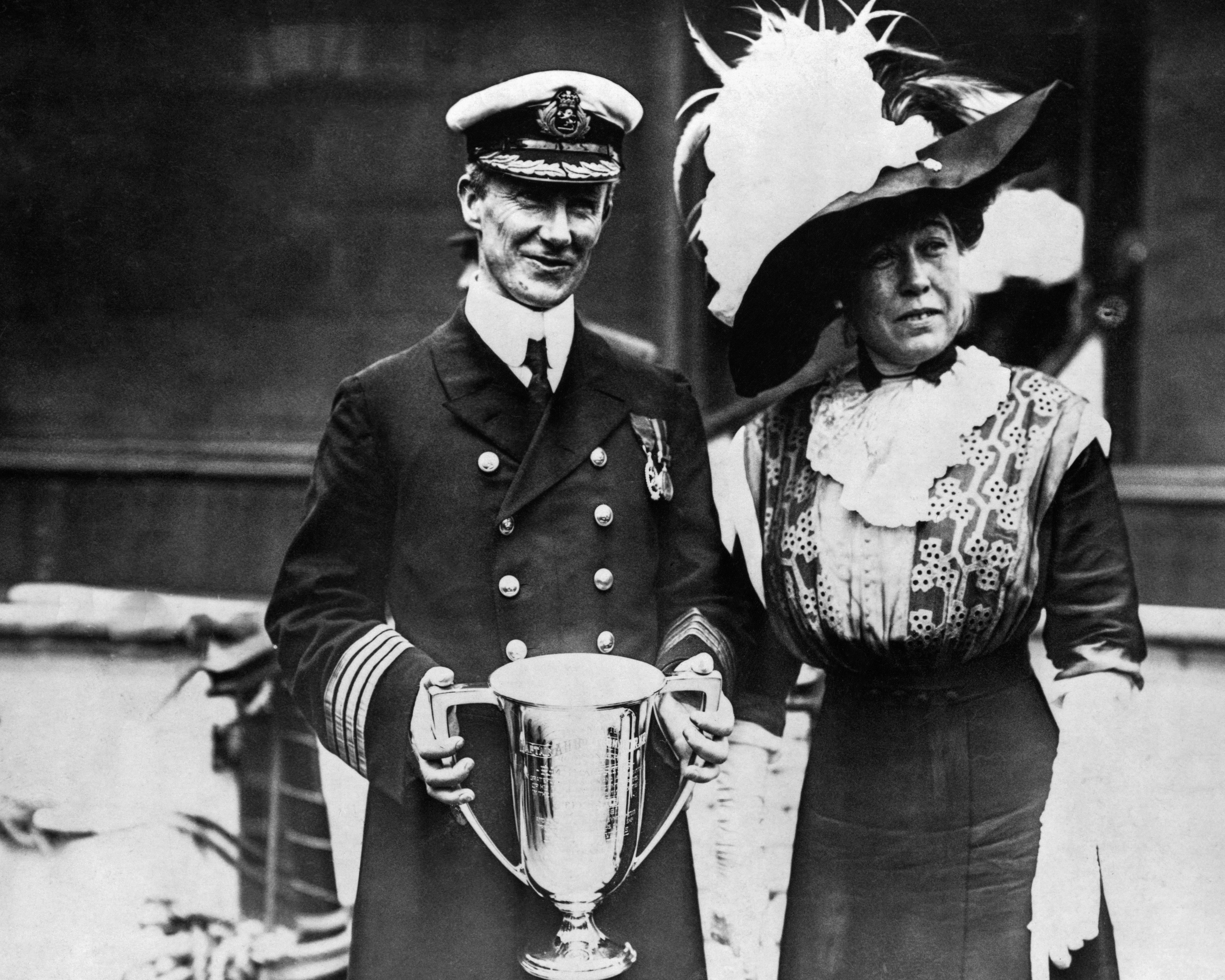 Titanic survivor, Margaret Brown and Carpathia Captain Arthur Rostron, after awarding him for the rescue of the Titanic